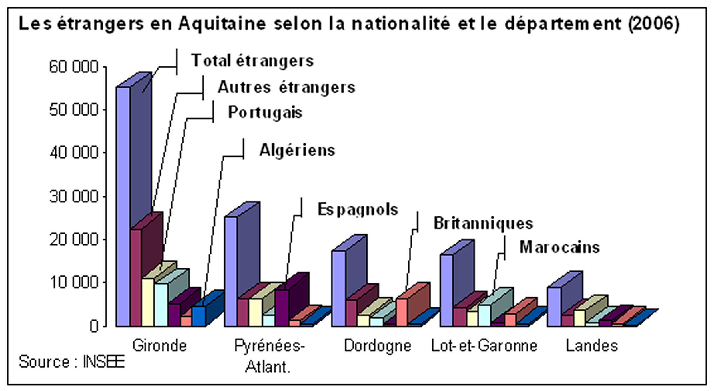 Foreigners in Aquitaine by nationality and the Department (2006)